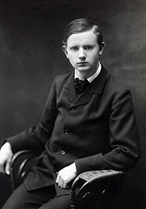 Carl Th. Dreyer, Danish filmmaker